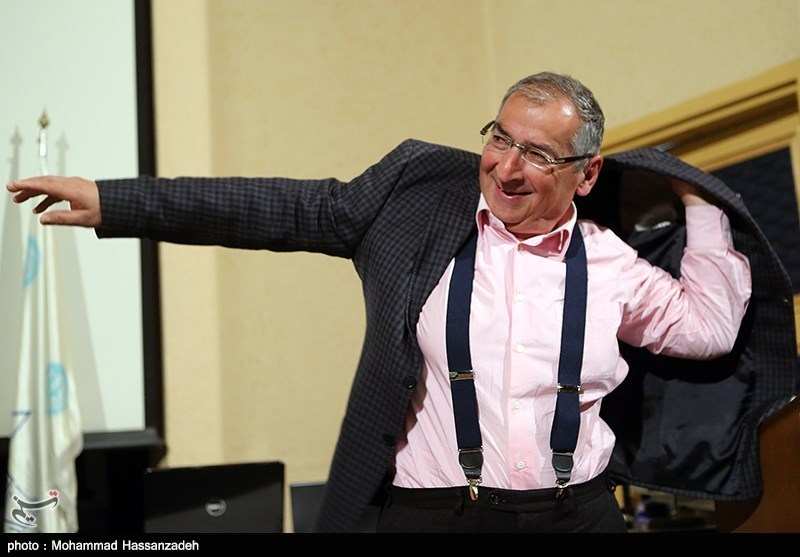 Sadegh Zibakalam